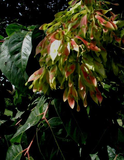 Fruit of Ailanthus altissima.